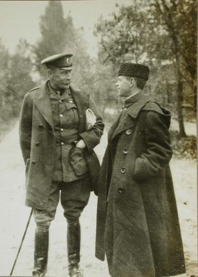 Major-General Sir John Hanbury-Williams with NYT reporter Stanley Washburn. Russia. 1914